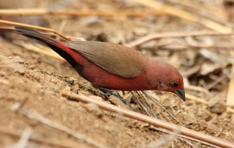 Male. Location: Mlondozi, Kruger National Park